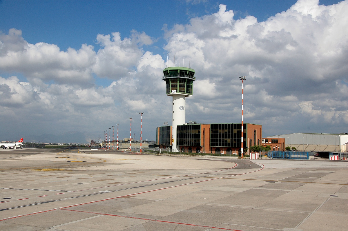 Naples 2010